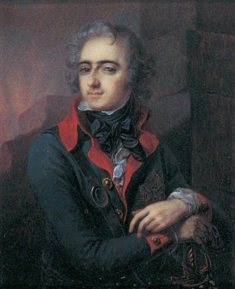 Prince Joseph Poniatowski (1763-1813) Polish Museum in Rapperswil, Switzerland